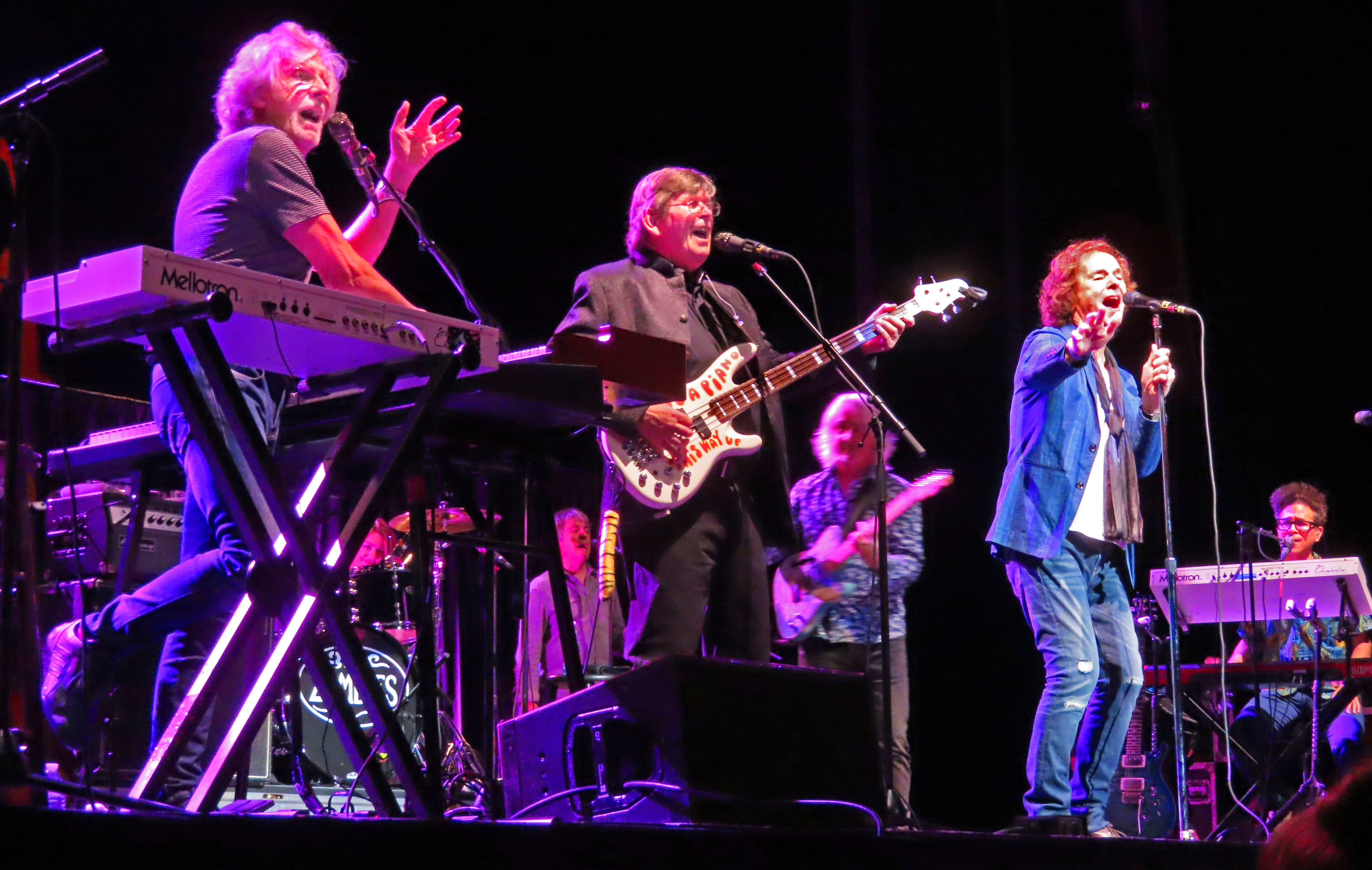 The Zombies playing on the their U.S. Tour with Brian Wilson in September 2019